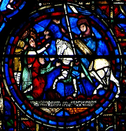 Theobald VI of Blois